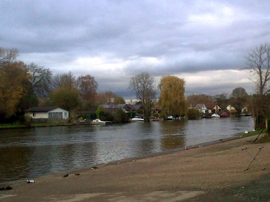 River Thames between Walton-on-Thames and Sunbury-on-Thames.